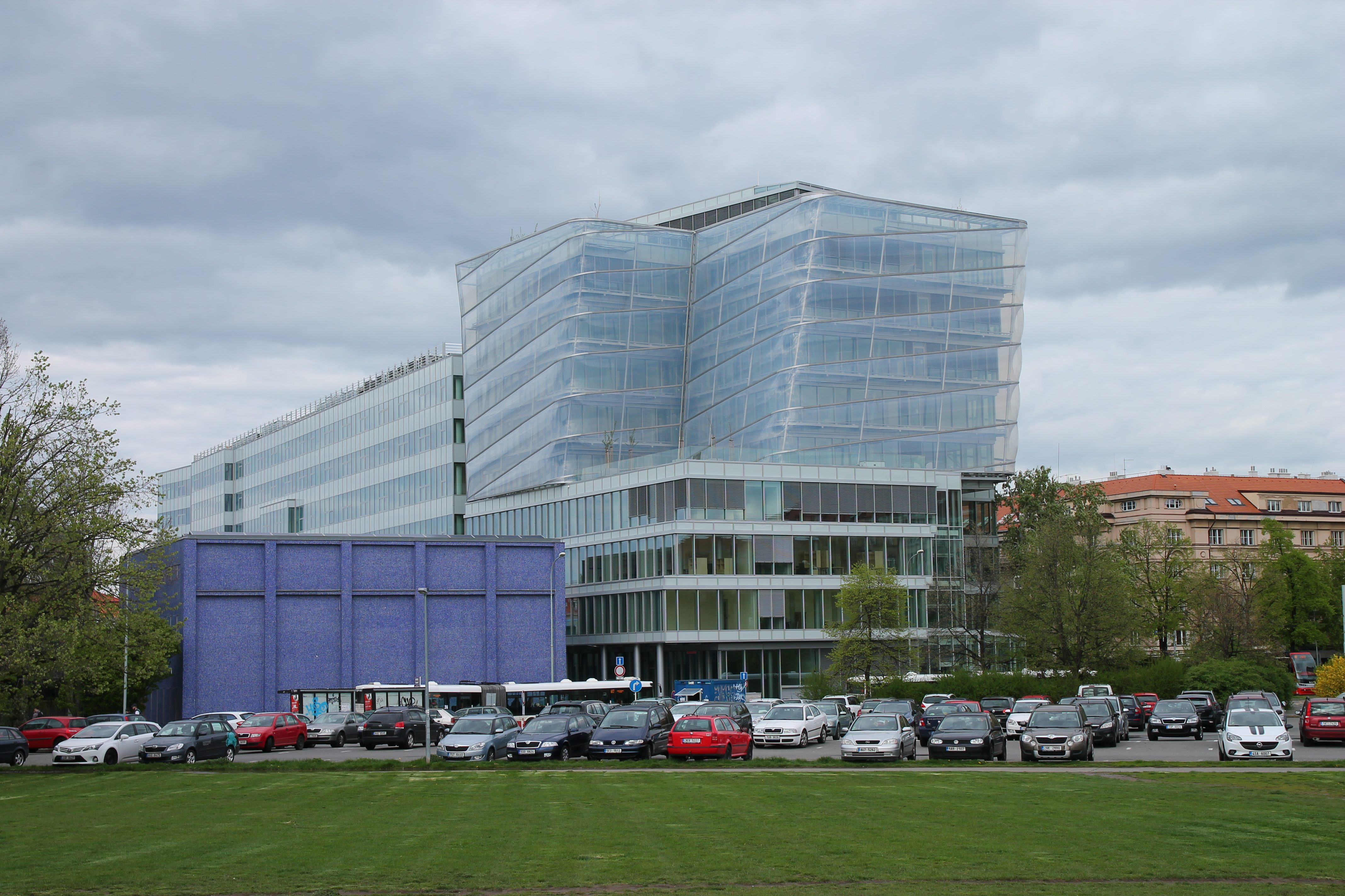 CIIRC building at Vítězné náměstí (Victory Square) in Prague